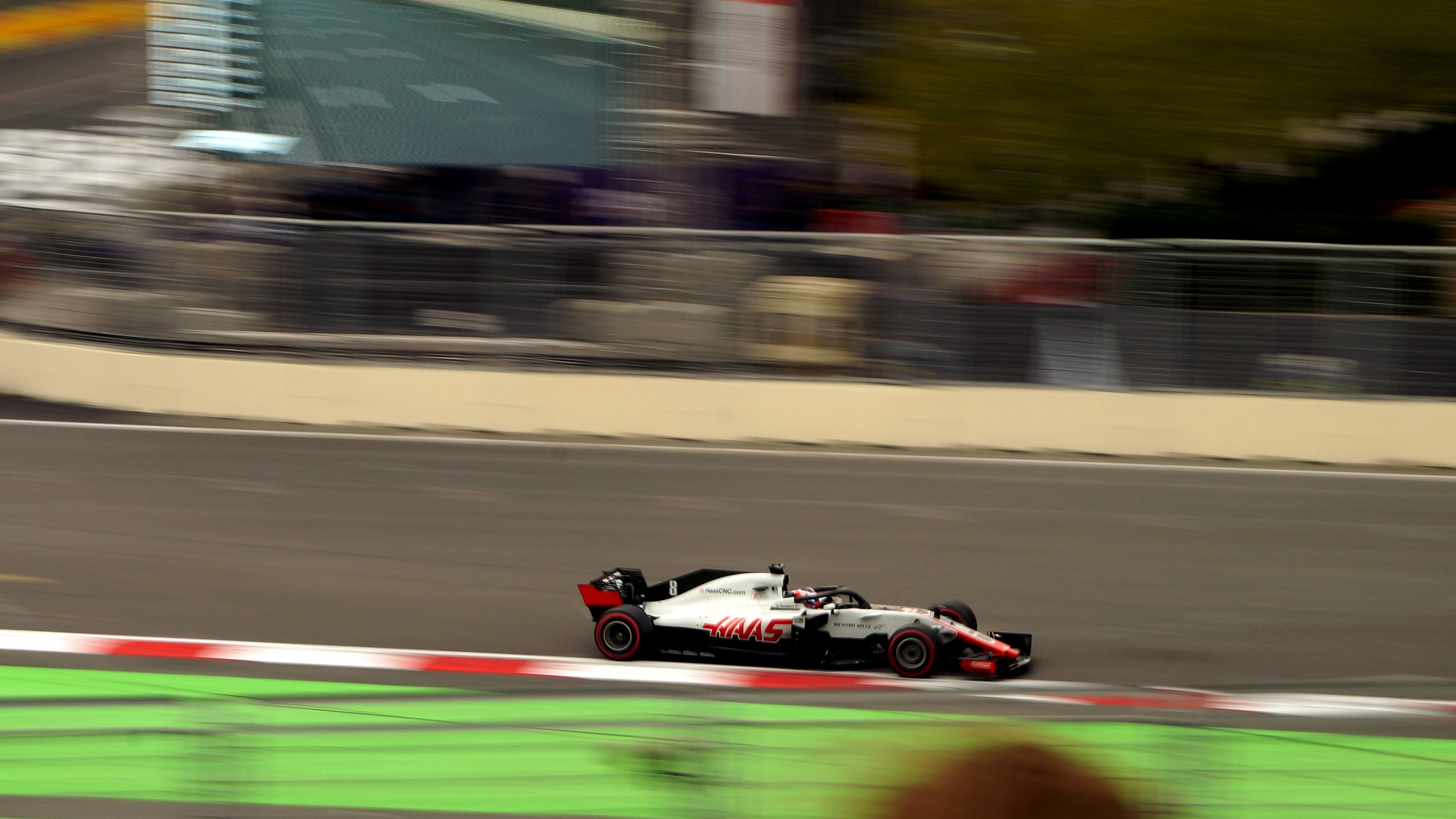 Romain Grosjean in Azerbaijan GP